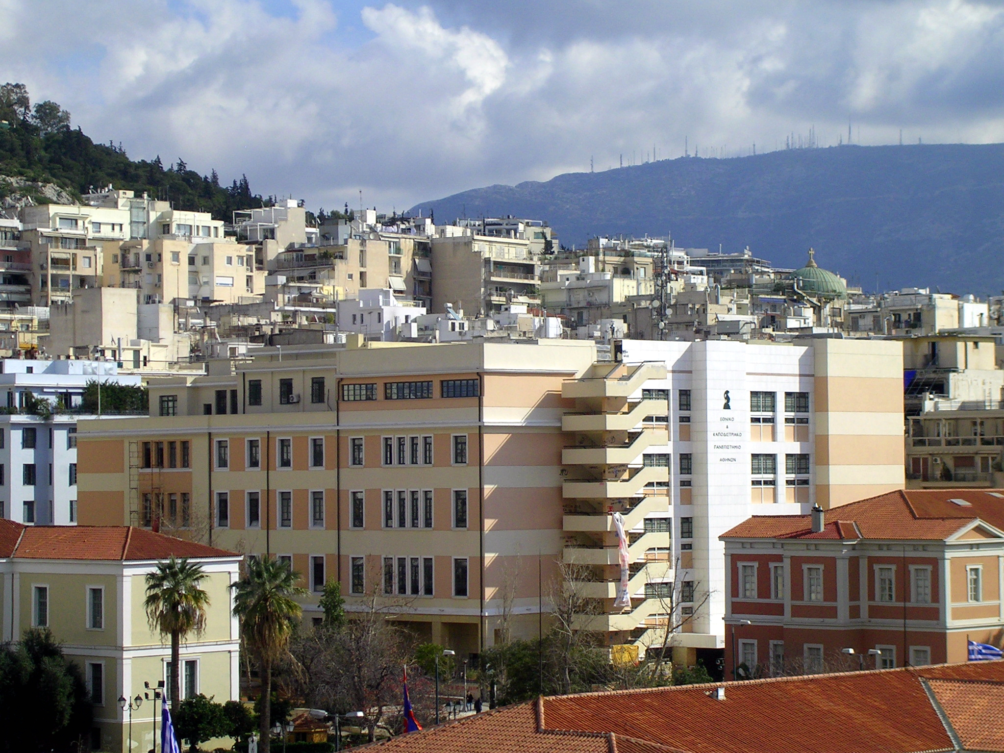 The renovated historical building that houses the Law School (also known as "Nomiki") of the National and Kapodistrian University of Athens, in Athens Greece.